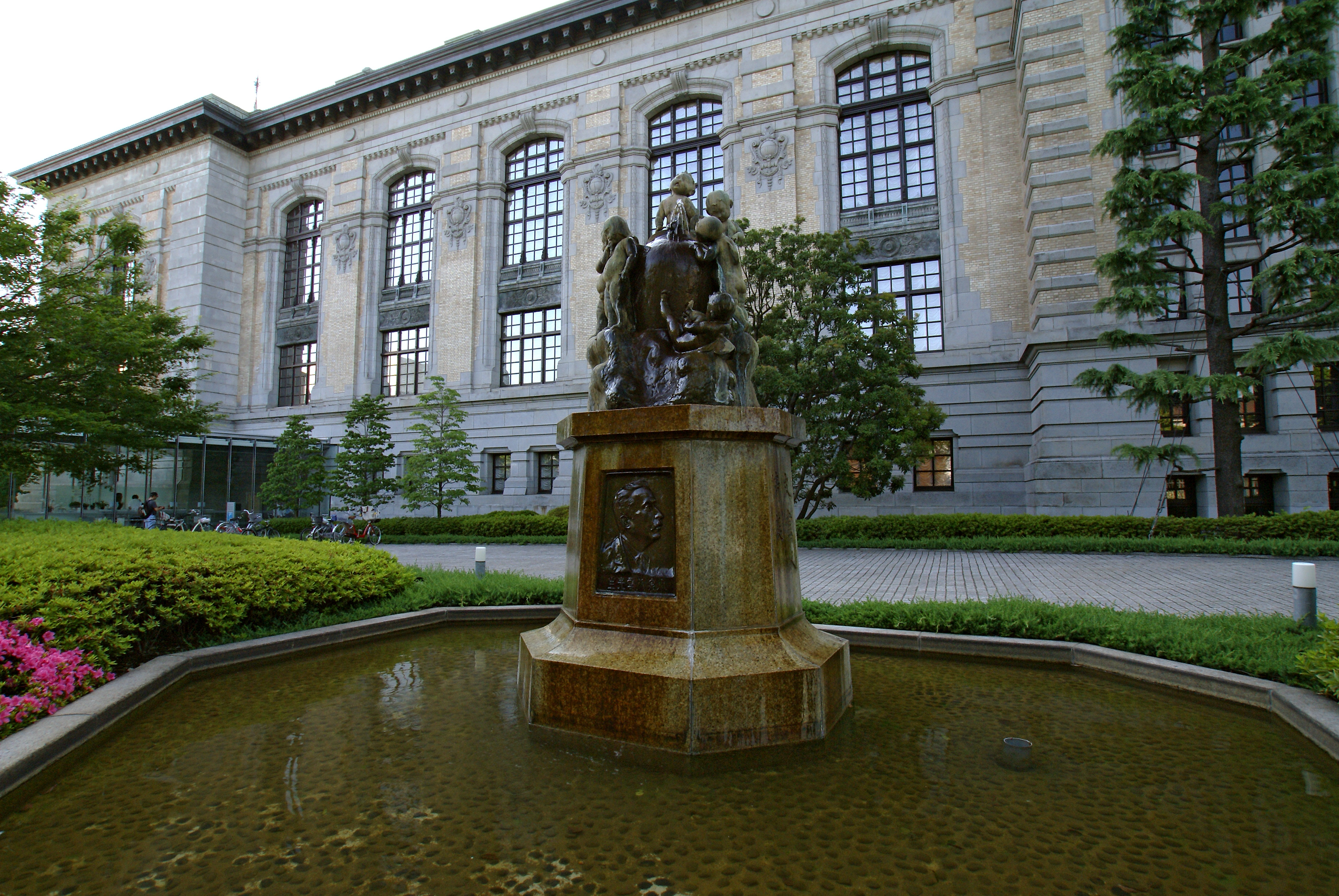 International Library of Children's Literature in Ueno, Taito-ku, Tokyo, Japan